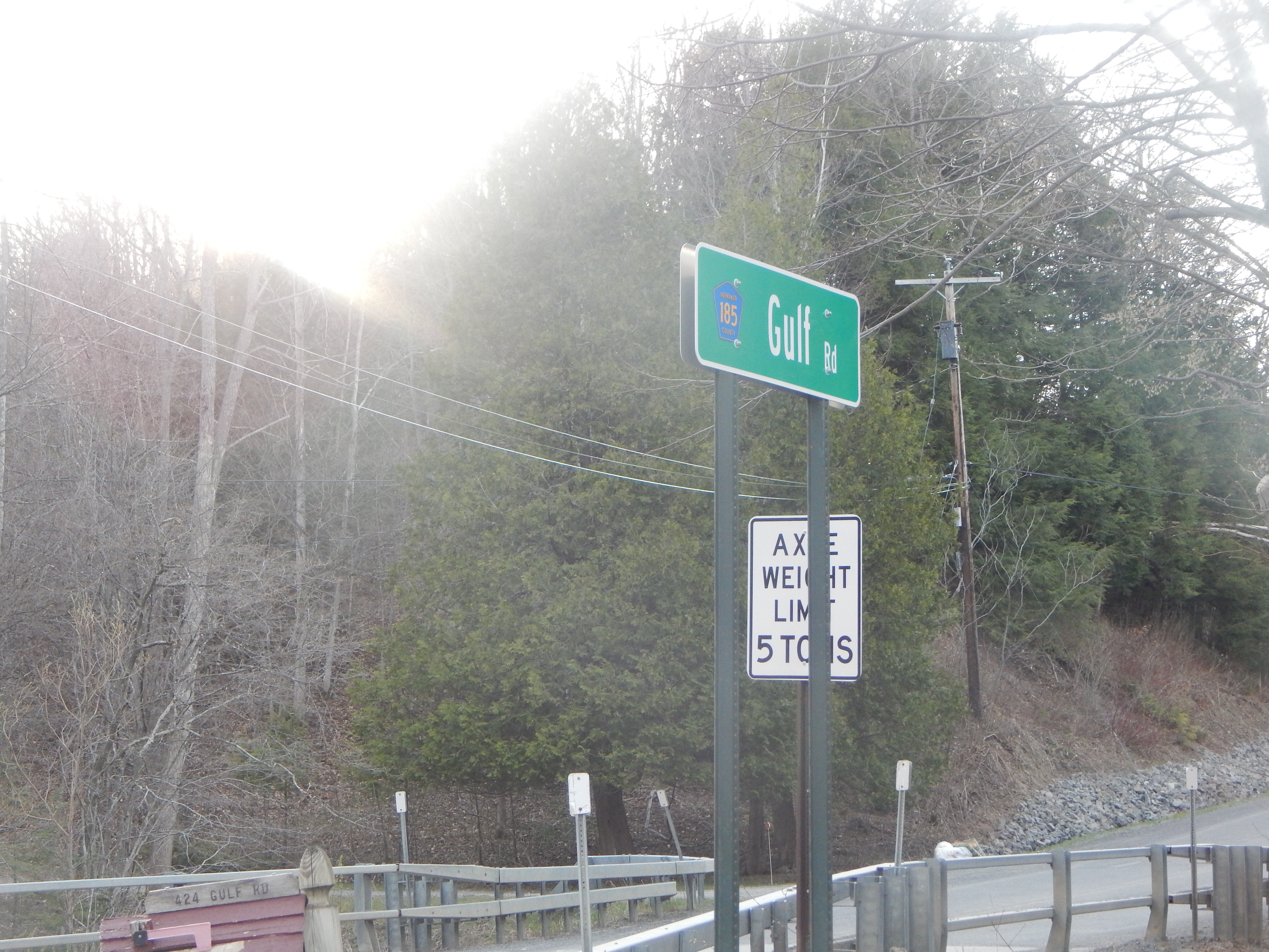 County Route 185 signage in Gulph, New York.